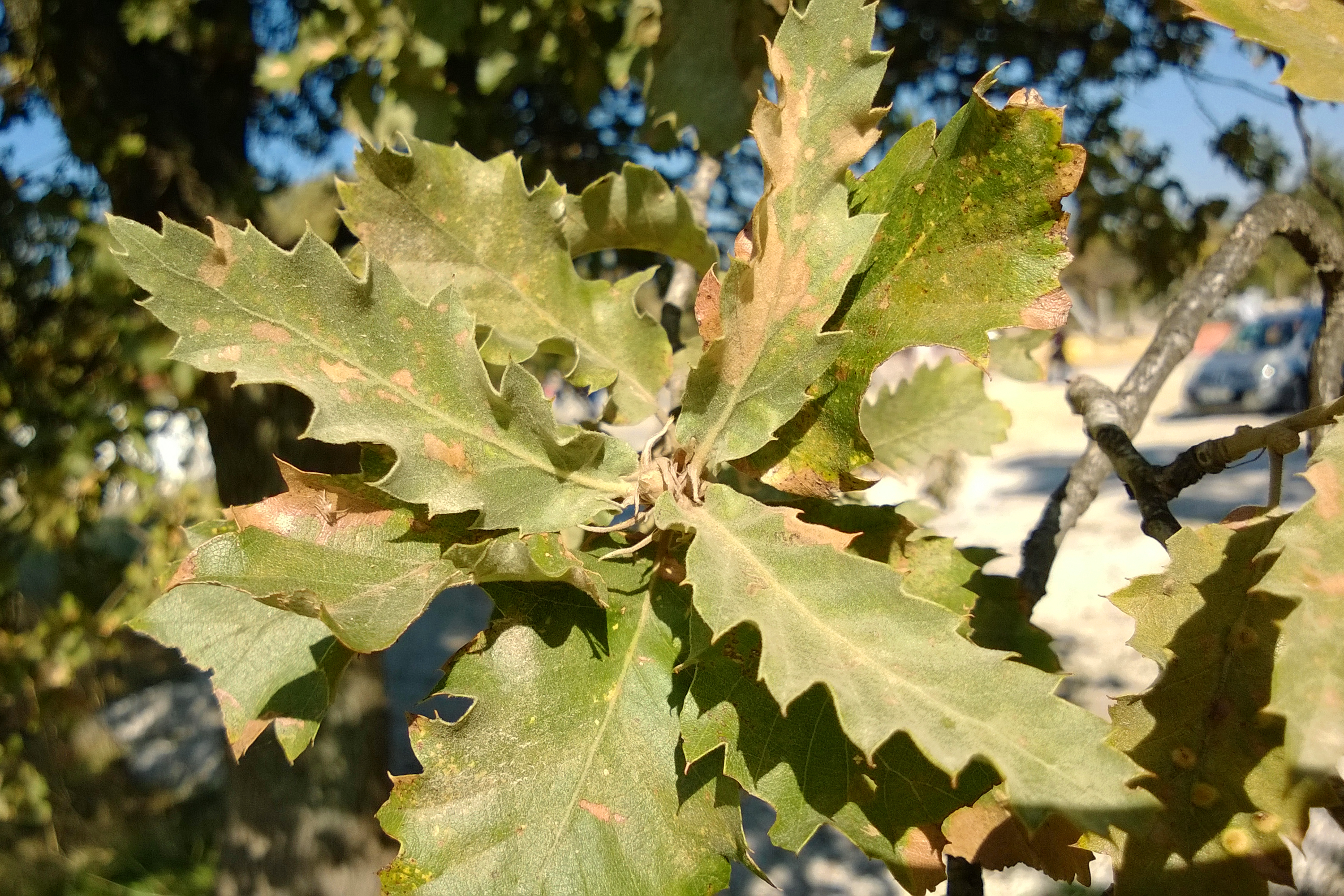 Quercus trojana tree